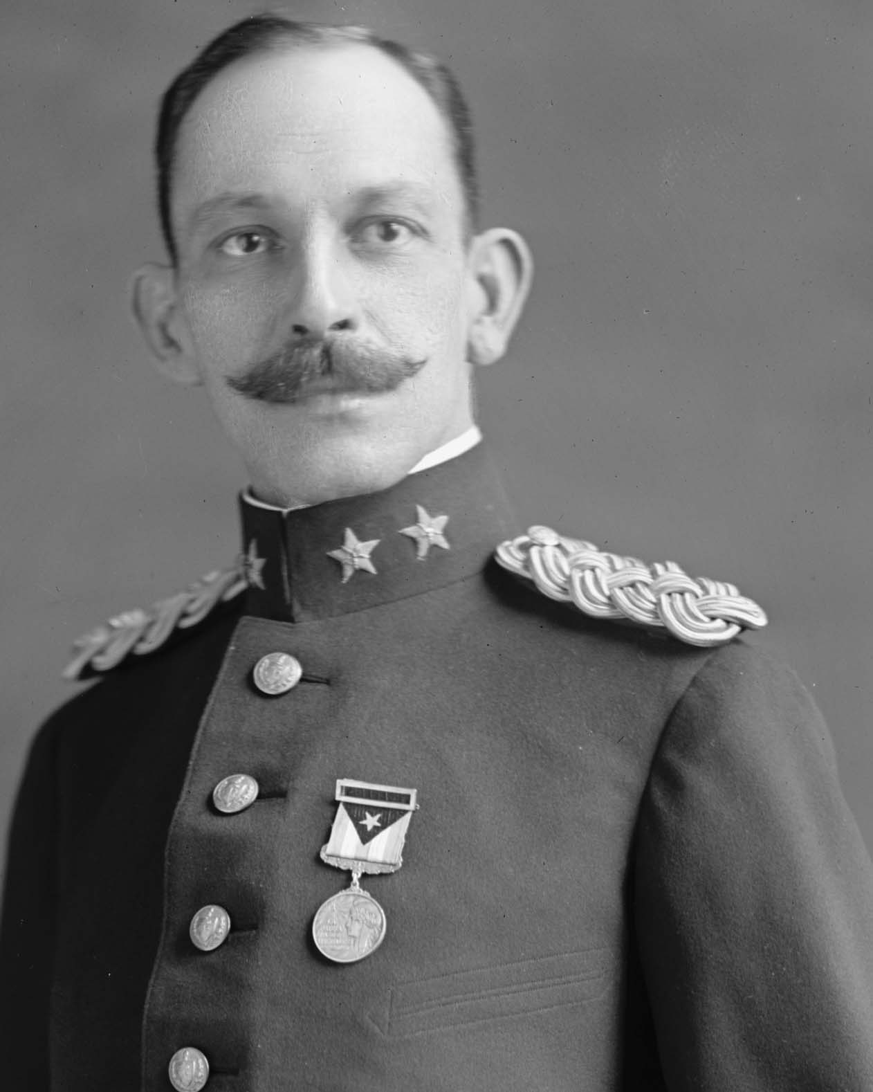 Jose Marti.